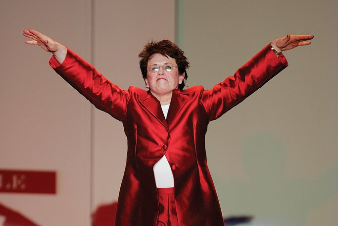 Billie Jean King modeling in The Heart Truth’s Red Dress Collections at New York’s Fashion Week, 2007